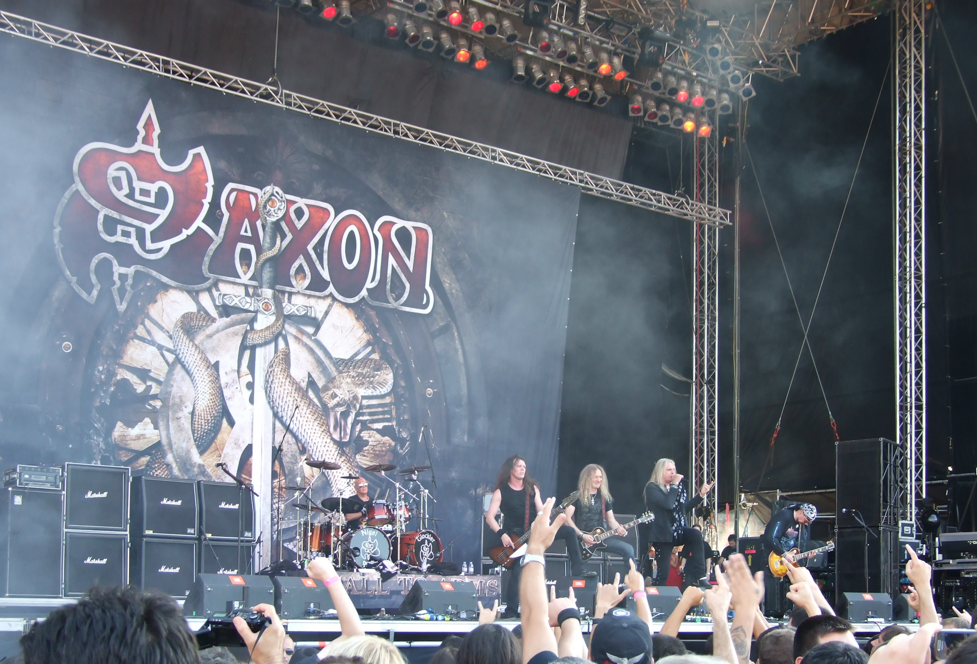 The British heavy metal band Saxon at Sofia Rocks Fest 2011.